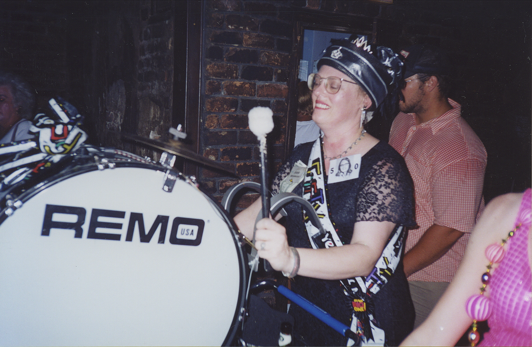 Bass drummer at New Orleans "Tumble" parade